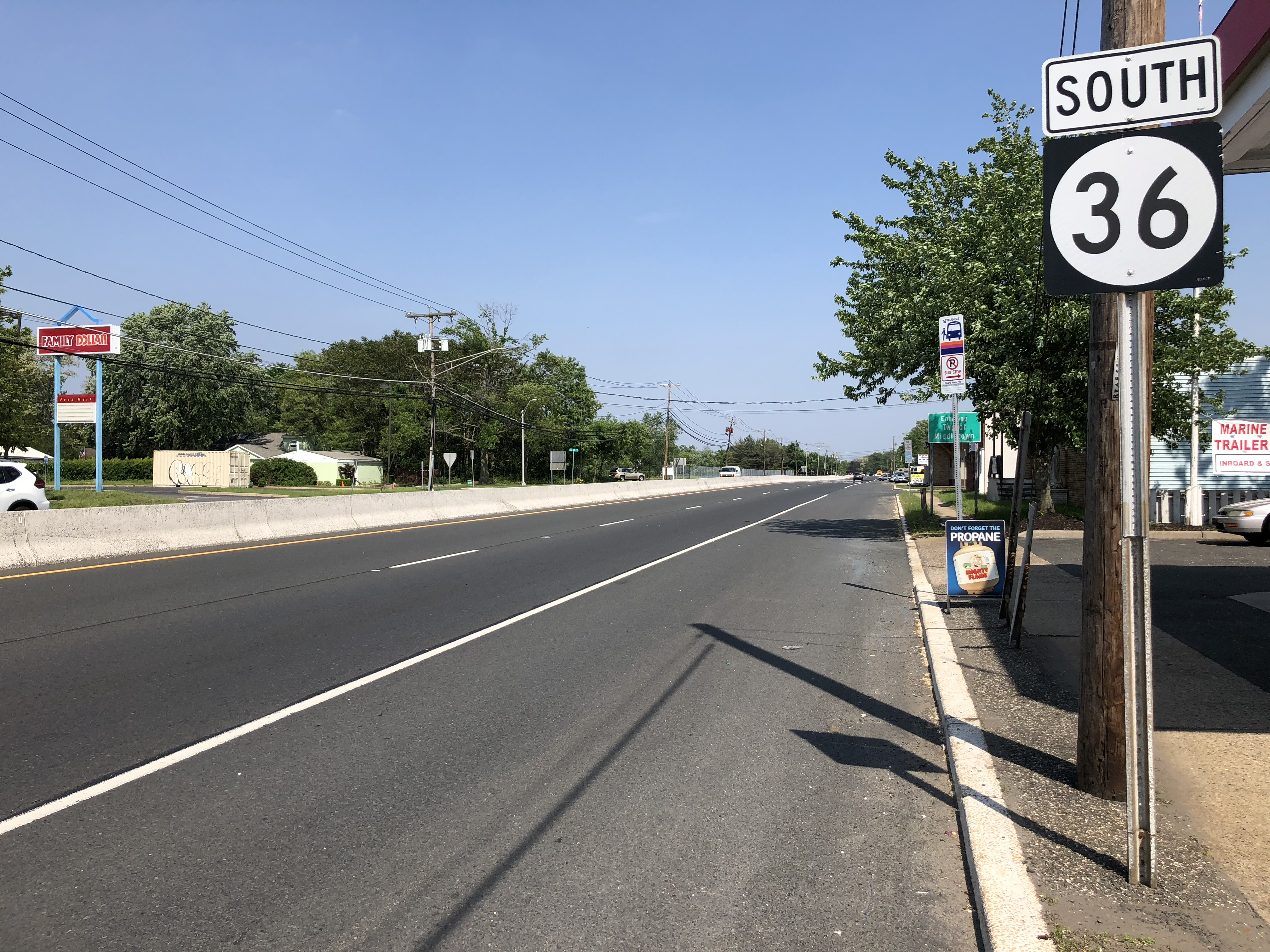 View south along New Jersey State Route 36 just south of Monmouth County Route 7 (Main Street/Palmer Avenue) on the border of Keansburg and Middletown Township in Monmouth County, New Jersey